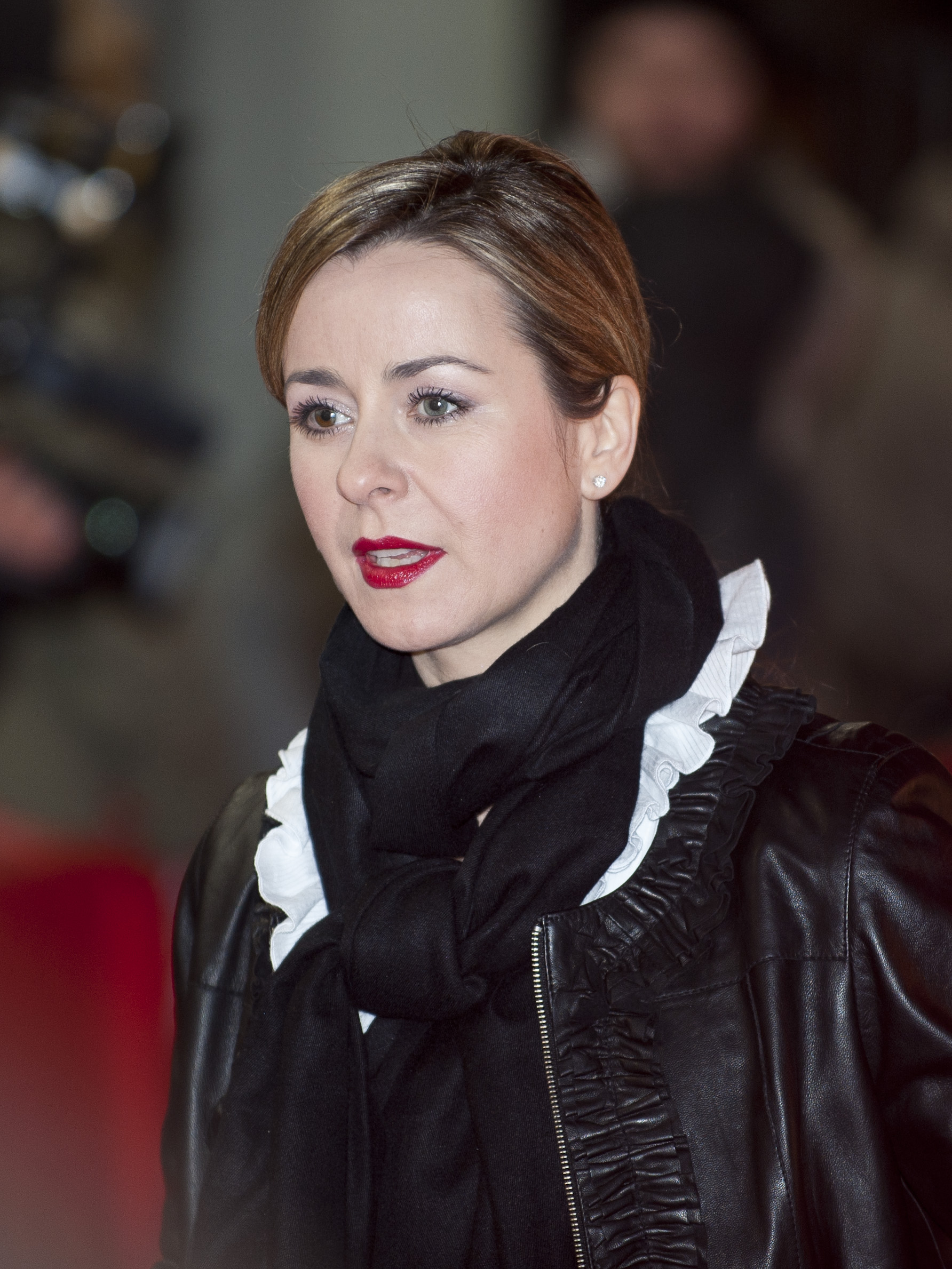 German TV-host Bettina Cramer at the premiere of "The King's Speech".